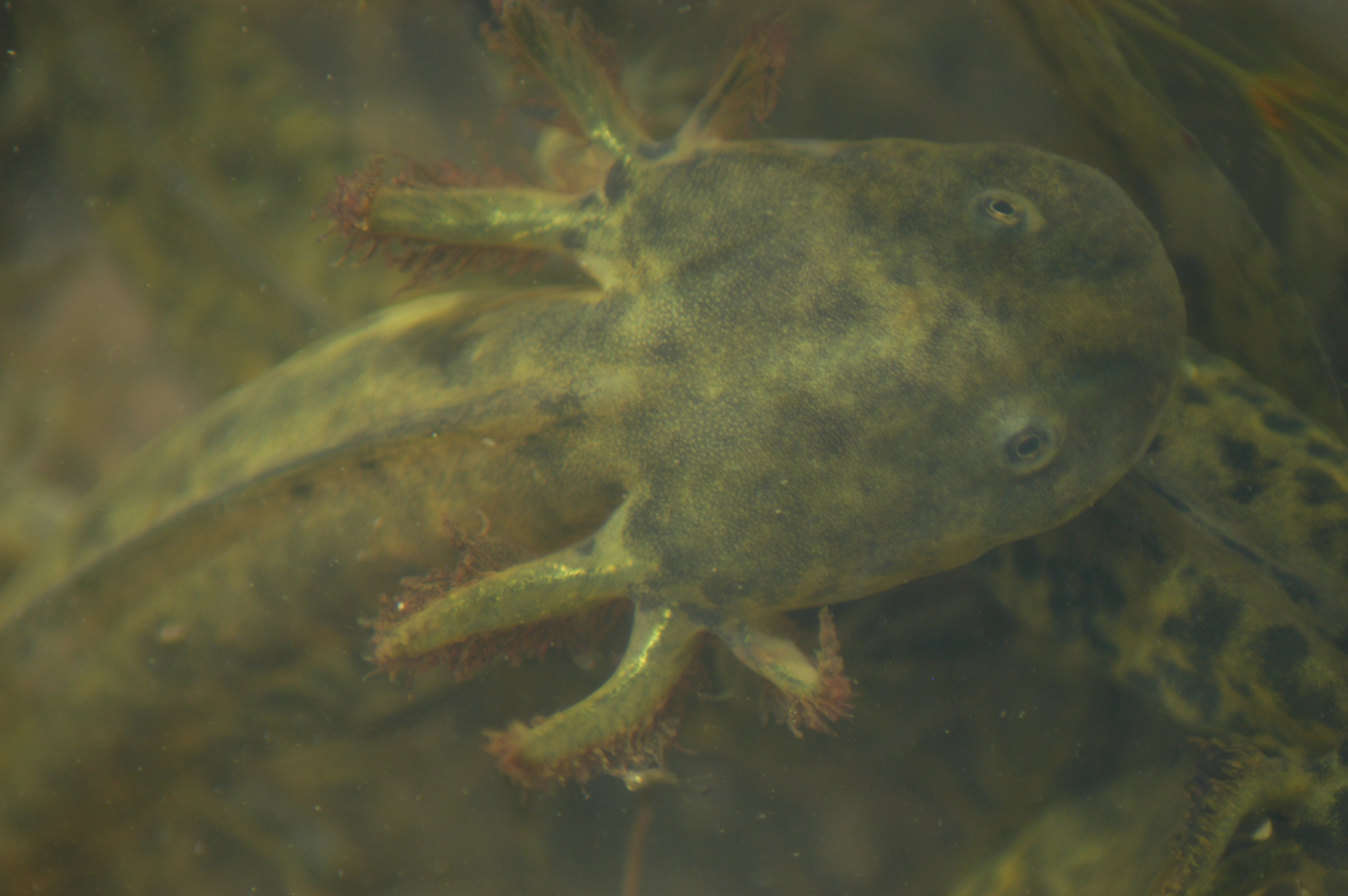 Aquatic life stage of the California Tiger Salamander (Ambystoma californiense) at various locations in California's Central Valley.